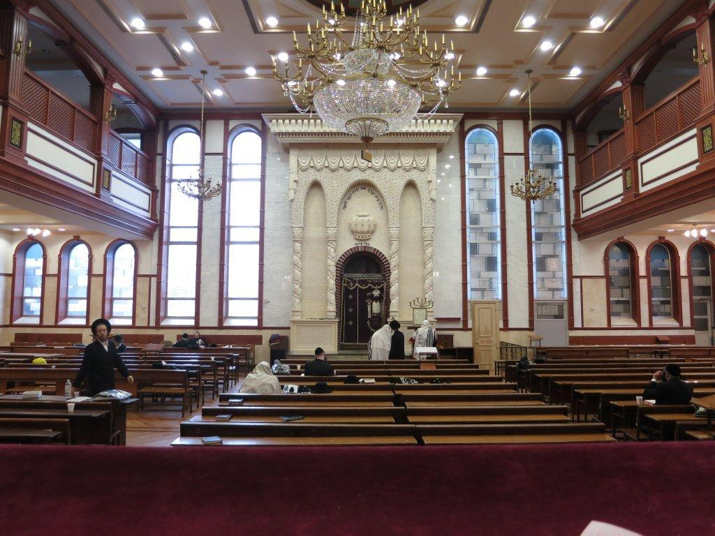 Pupa grand synagogue Interior